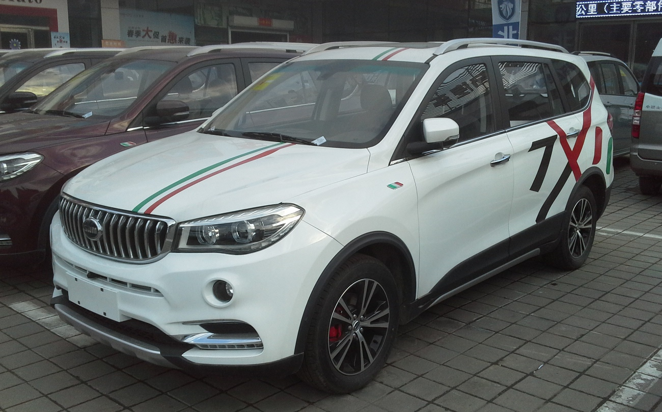 SWM X7 photographed in Changchun, Jilin province, China.